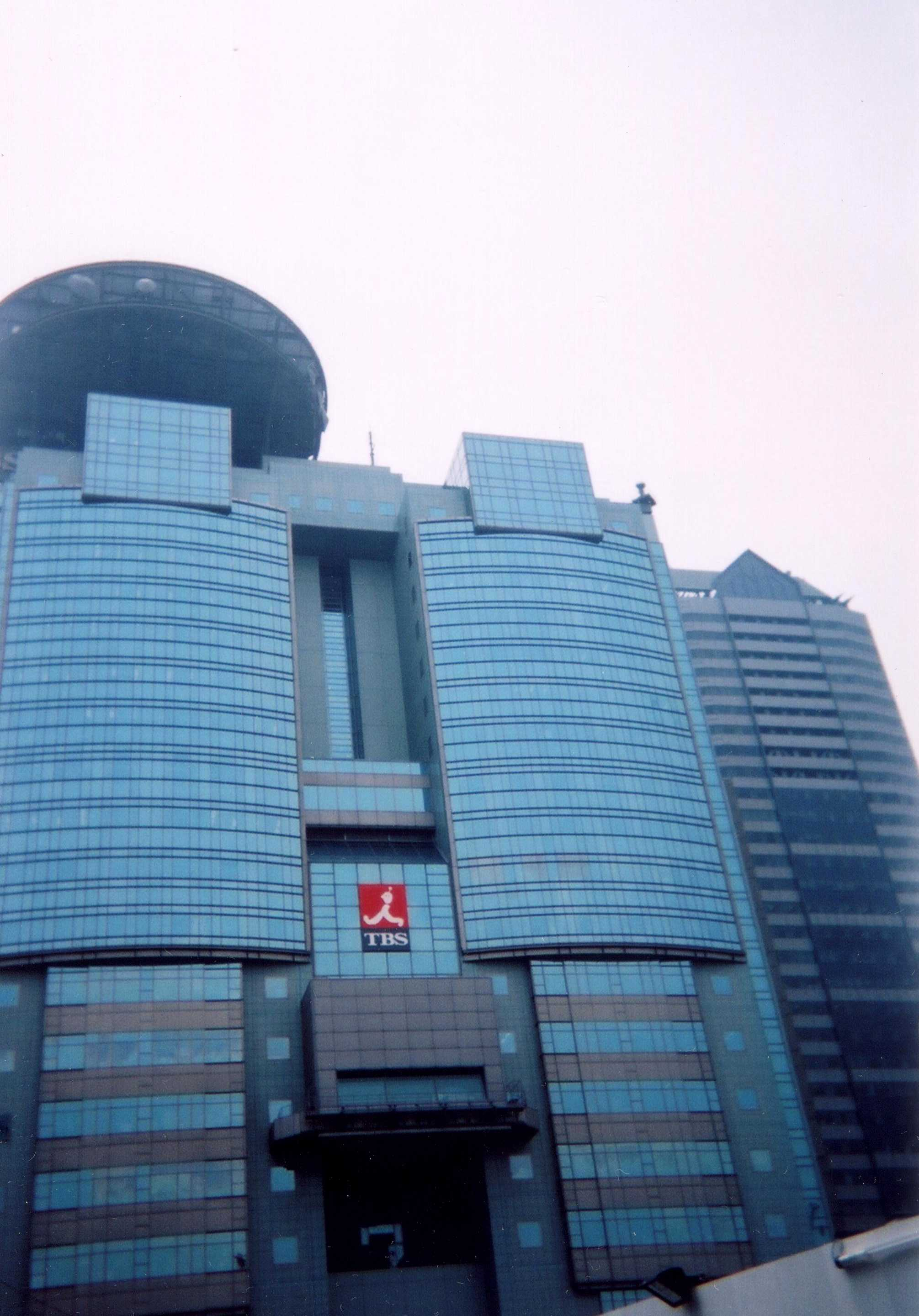 photo of TOKYO BROADCASTING SYSTEM (TBS), which is the very popular commercial broadcasting station of Tokyo, Japan. This building nicknamed "Big-hat".